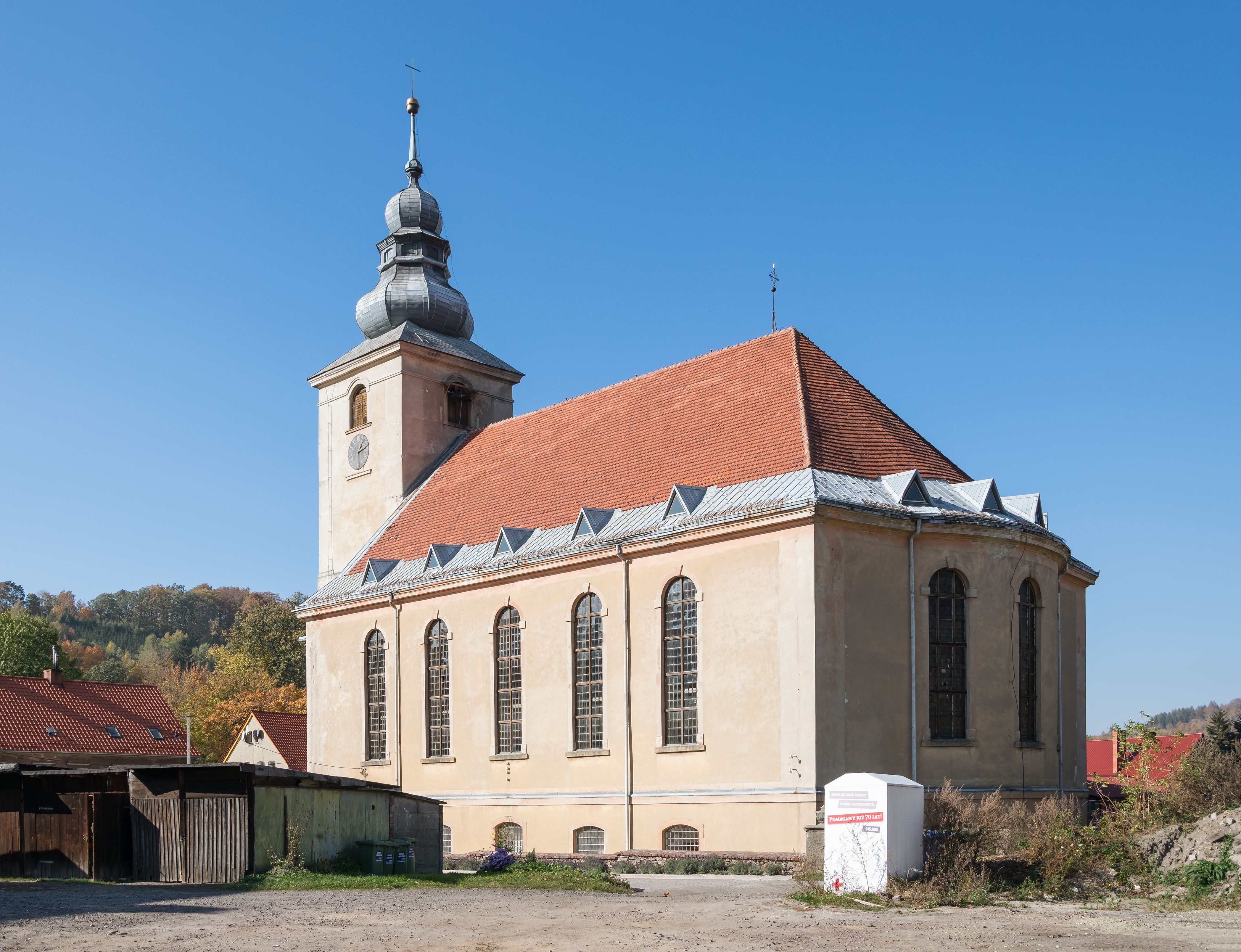 Saint Hedwig church in Walim Wikidata has entry Q30083179 with data related to this item.